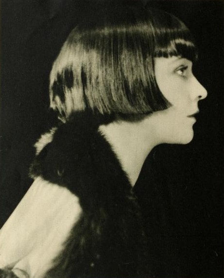 Publicity photo of Mary Thurman from Stars of the Photoplay